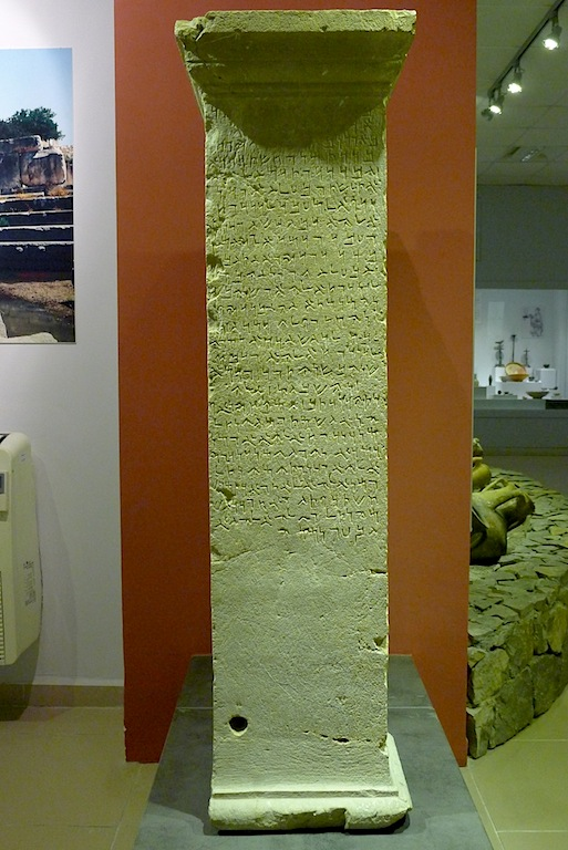 Letoon Trilingual, Aramaic Side